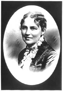 Etta Agnell Wheeler (1857 - December 5, 1921) was the rescuer and advocate of Mary Ellen Wilson, whose infamous abuse story led to the creation of the New York Society for the Prevention of Cruelty to Children. Wheeler was also influential in the society’s creation because she convinced future founder of the society, Henry Bergh, who at the time was founder of the New York Society for the Prevention of Cruelty to Animals, to take on the issue and spearhead the case.